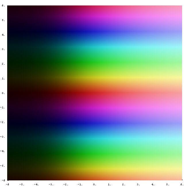 function Exp[z] in the complex plane